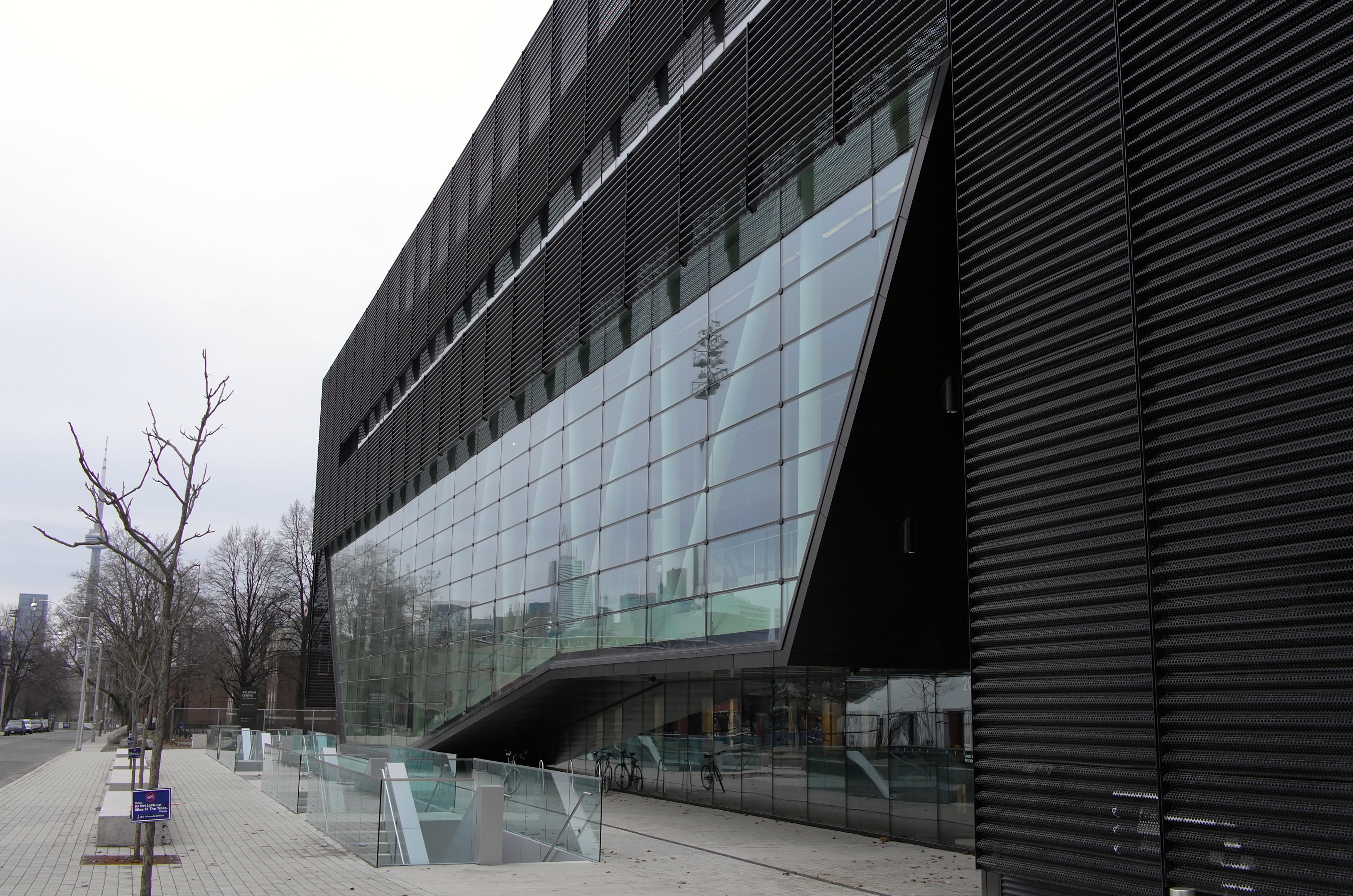 A photo of the exterior of the Goldring Centre for High Performance Sport at the University of Toronto in Toronto, Ontario, Canada.